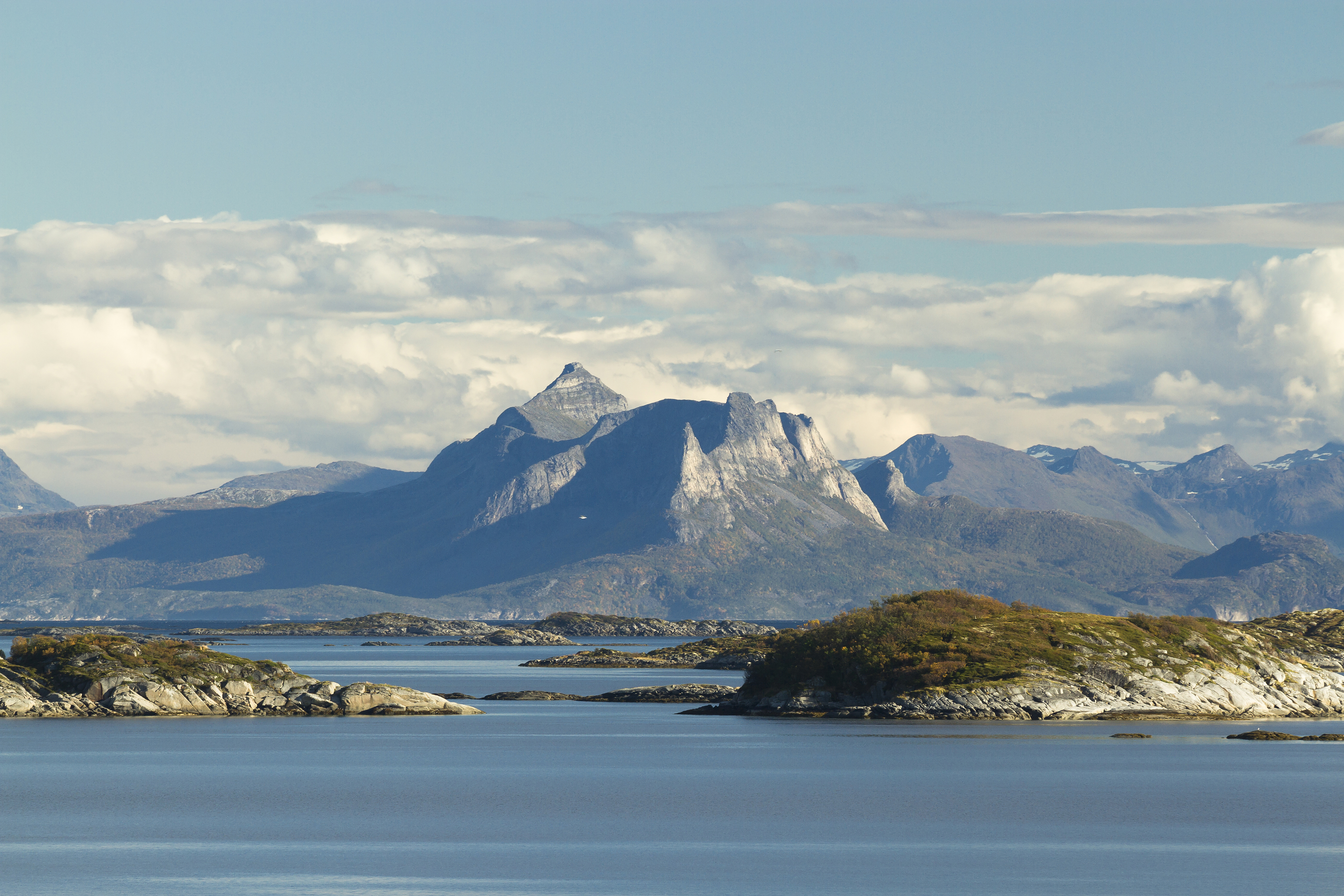 A distant view towards Hatten and its neighbor mountains over Vestfjorden, Nordland, Norway, 2015 September. The mountains are located in Hamarøy and Tysfjord. However the photography location is in Vågan.